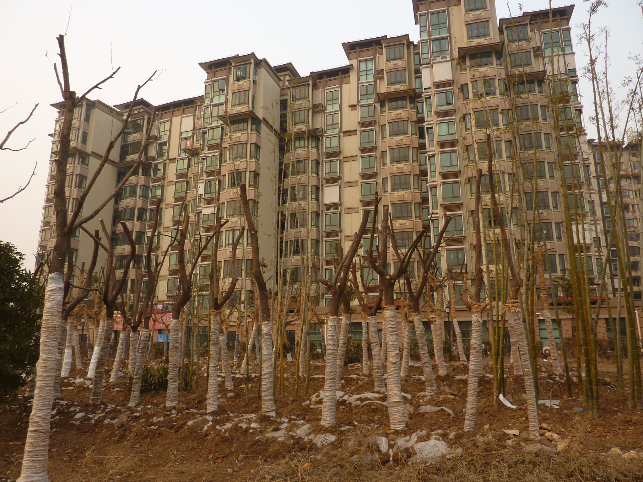 A new apartment building near Jinmalu Metro Station, Nanjing. Note the newly transplanted mature trees; this is common in landscaping in China's major cities.